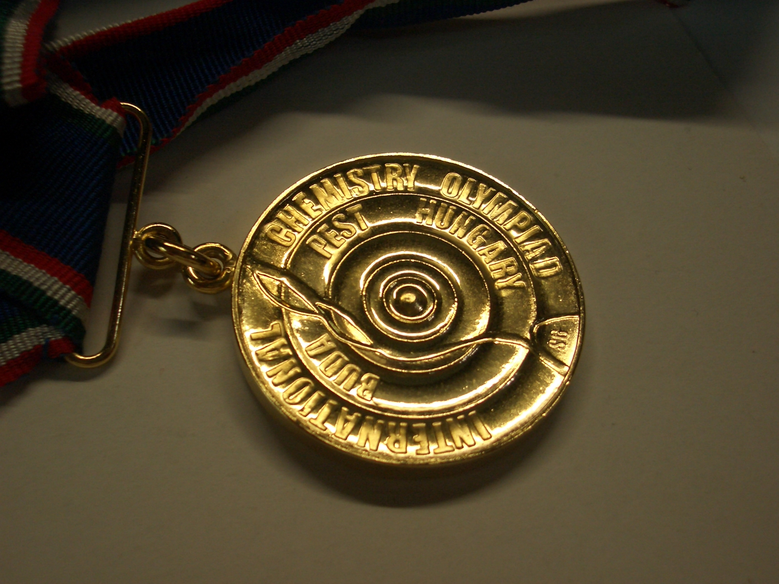 Kelvin Anggara's gold medal from IChO 2008